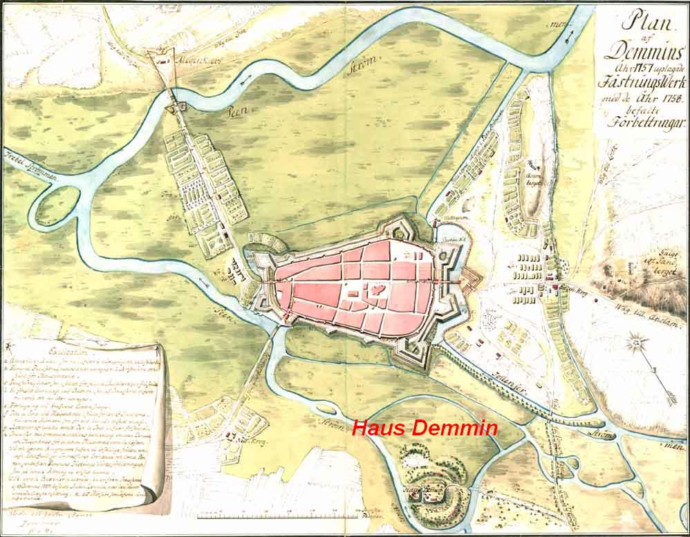 Map of Demmin